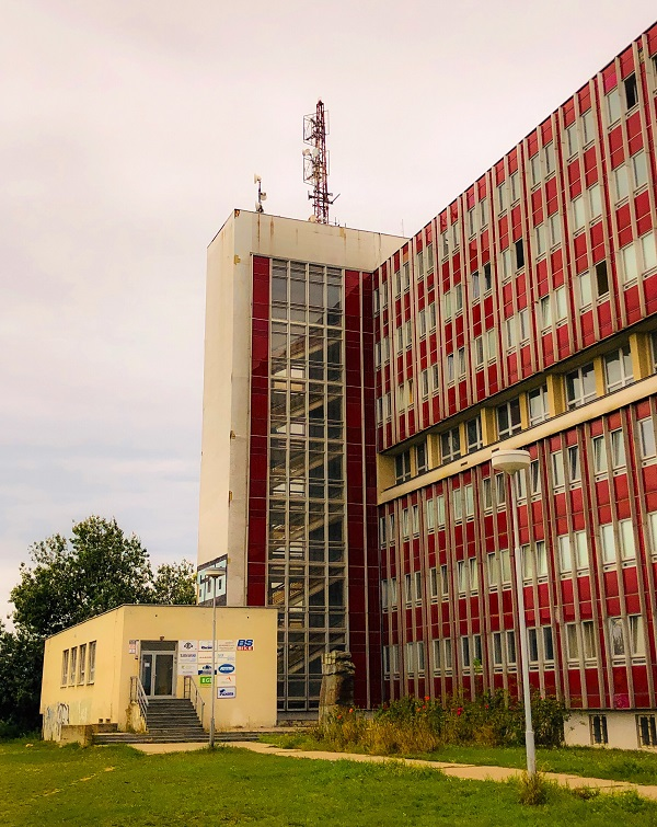 CZ, Brno, Okruzni 29a, Former Radio station Brno 95.7 headquarters building and transmitter